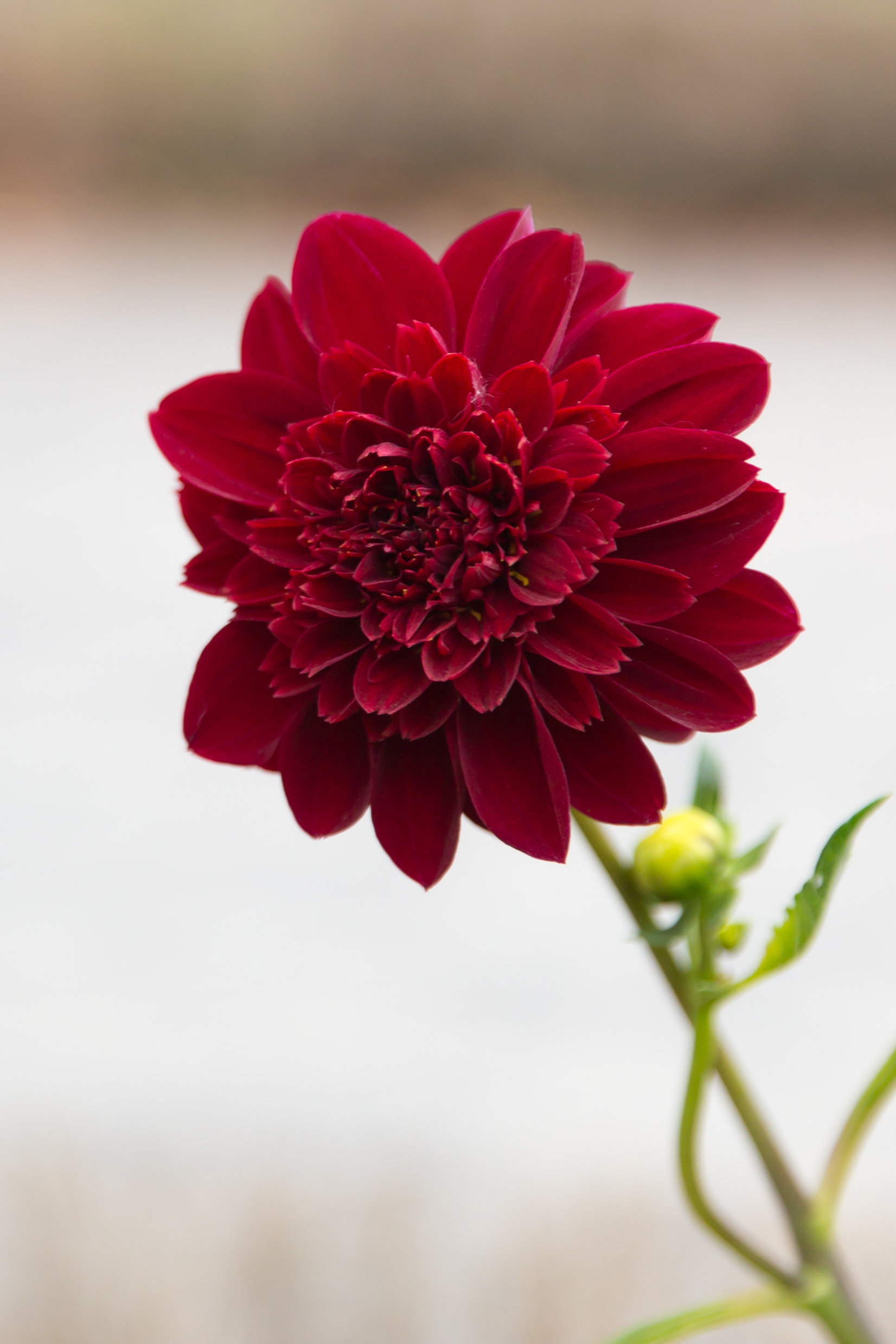 Dahlia pinnata (Garden Dahlia) in the jardin botanique de Lyon, France.